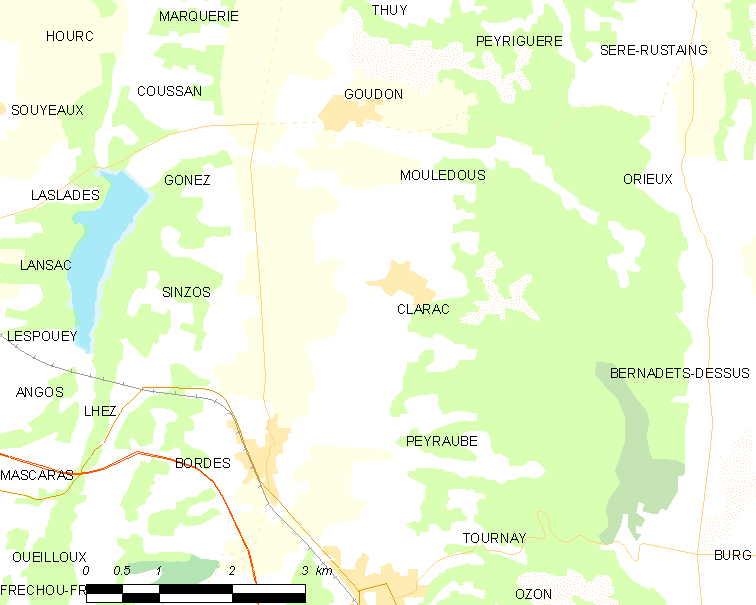 Map of French municipality